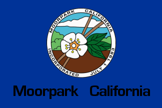 Reconstruction of the flag of Moorpark, California by Eugene Ipavec on March 1, 2009.